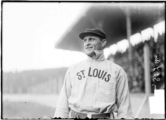 Photograph of Dick Padden taken in 1905.